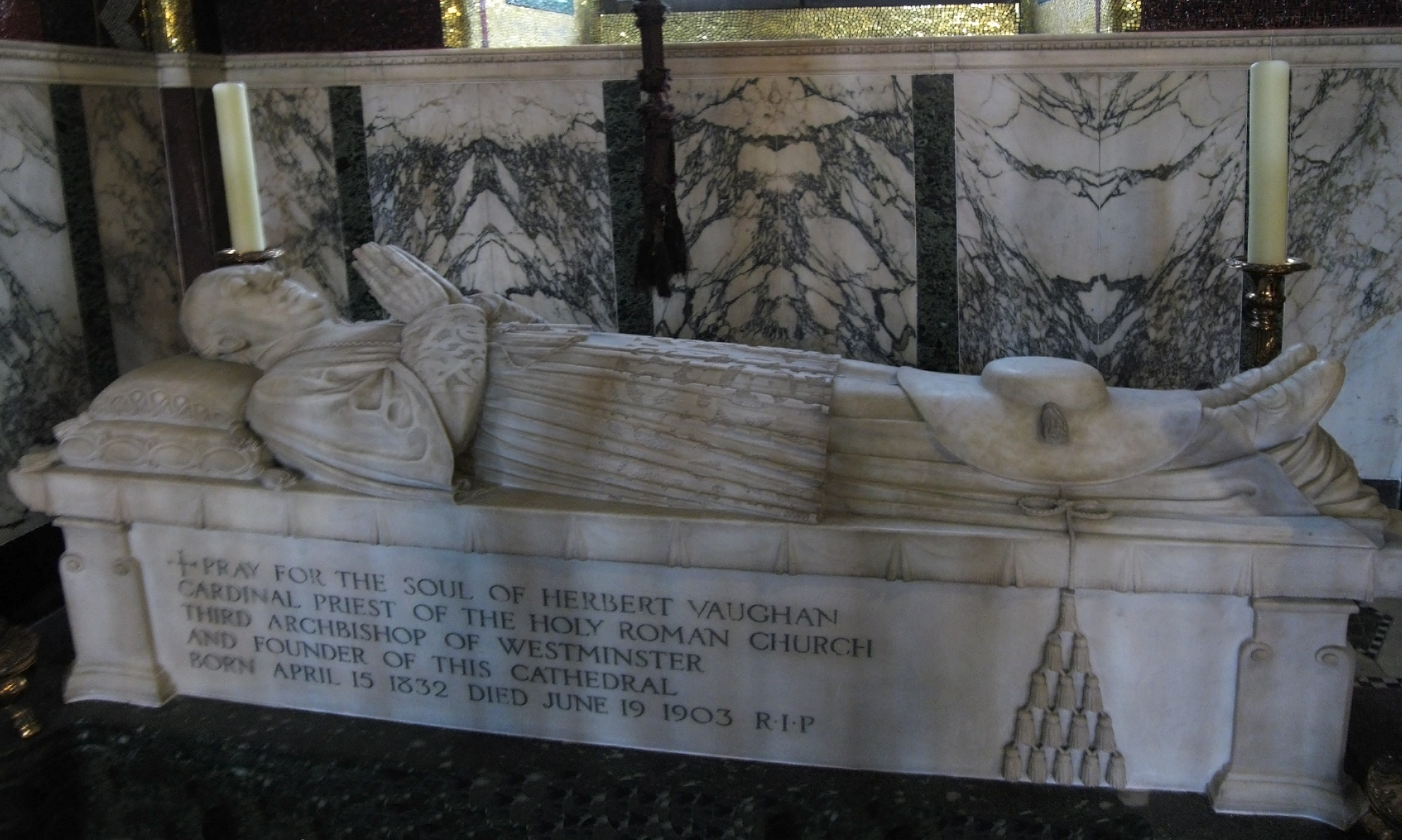 Tomb of Herbert Cardinal Vaughan in Westminster Cathedral.